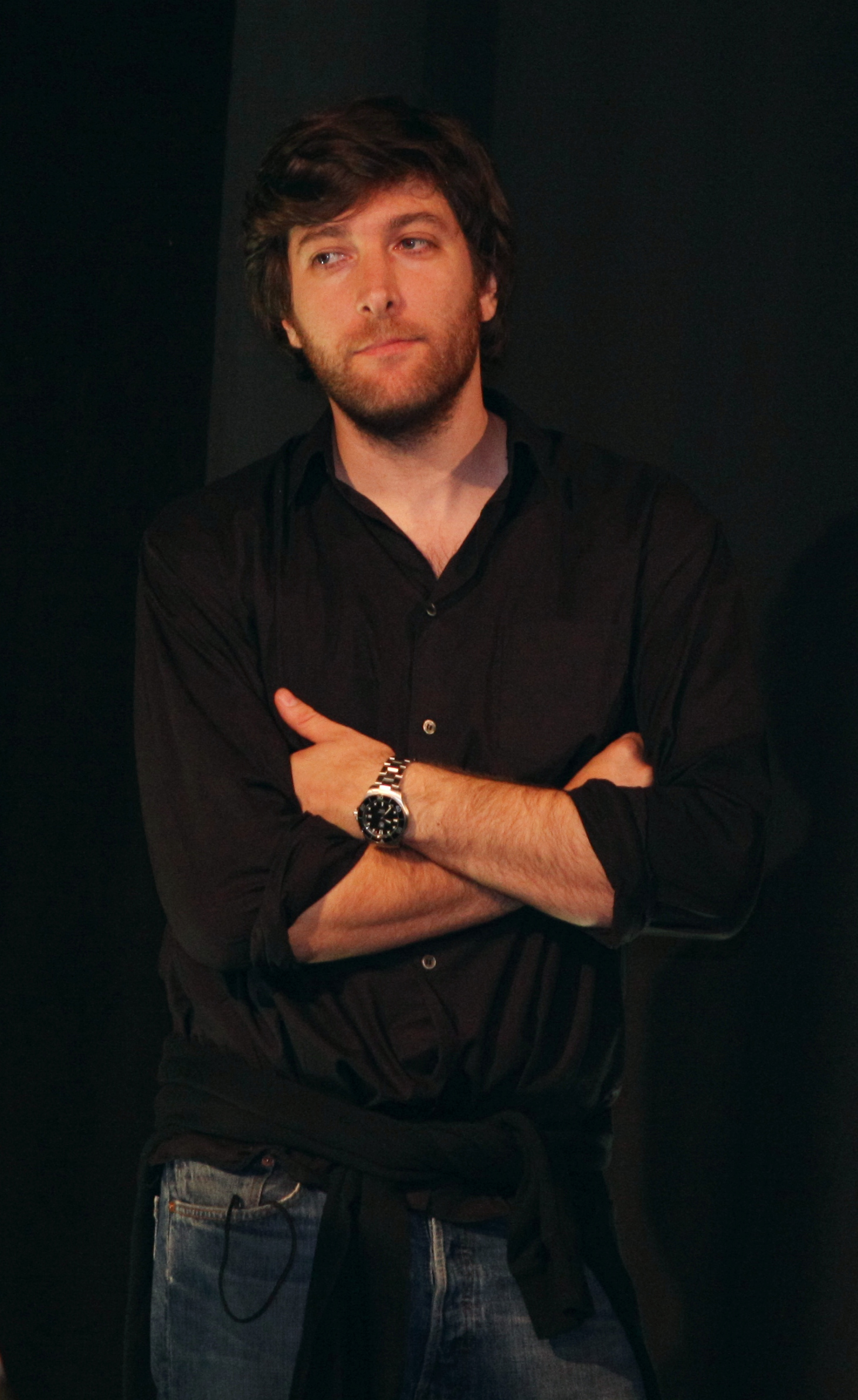 Director Albert Arizza introduces his film Ramirez at 44th Karlovy Vary International Film Festival